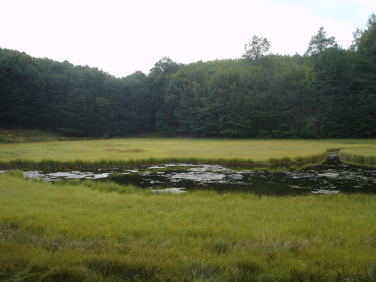 Lokuv lake on Deshat Mountain, Macedonia